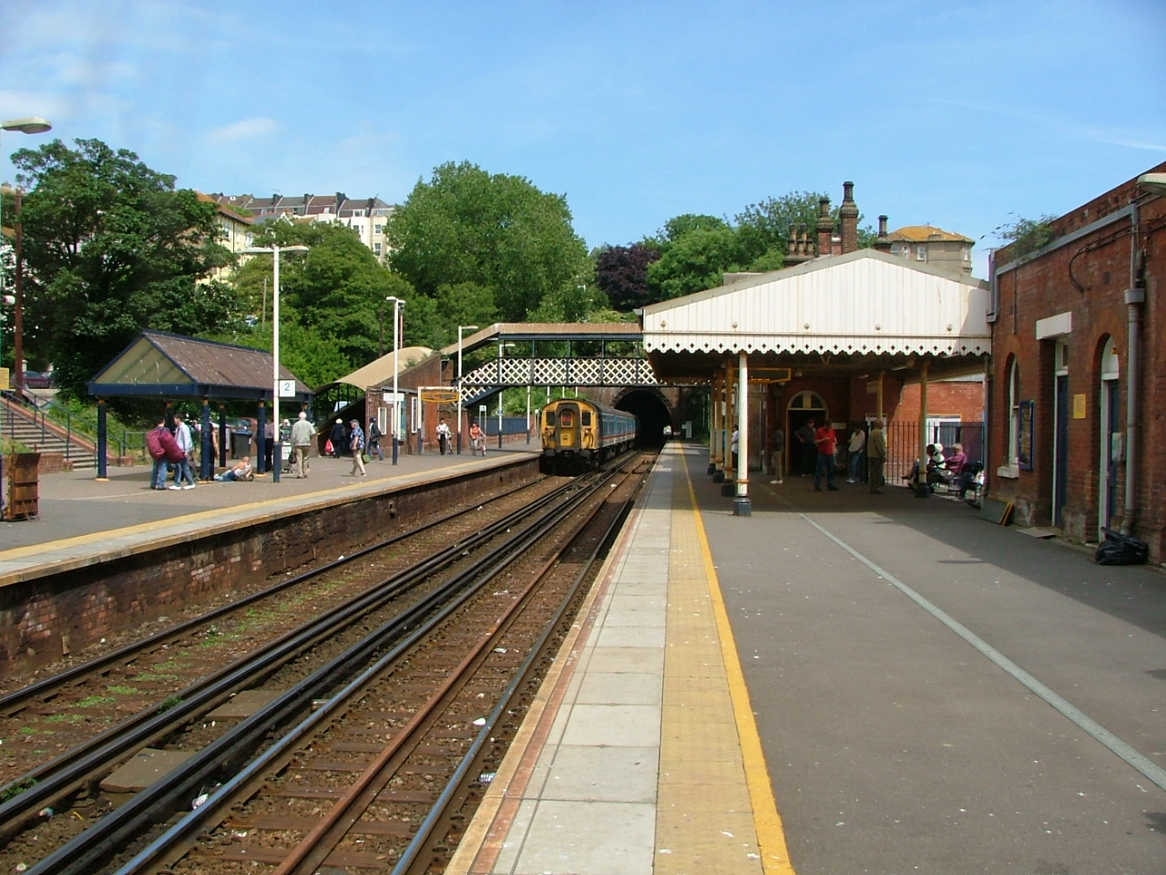 . . . No not a military manoever but the name of a station on the lines to Hastings (of Norman Conquest fame) from London via Tunbridge Wells or Eastbourne. This is another station gently decaying into forgotton anonymity. Picture shows old style electric train, now obsolete.